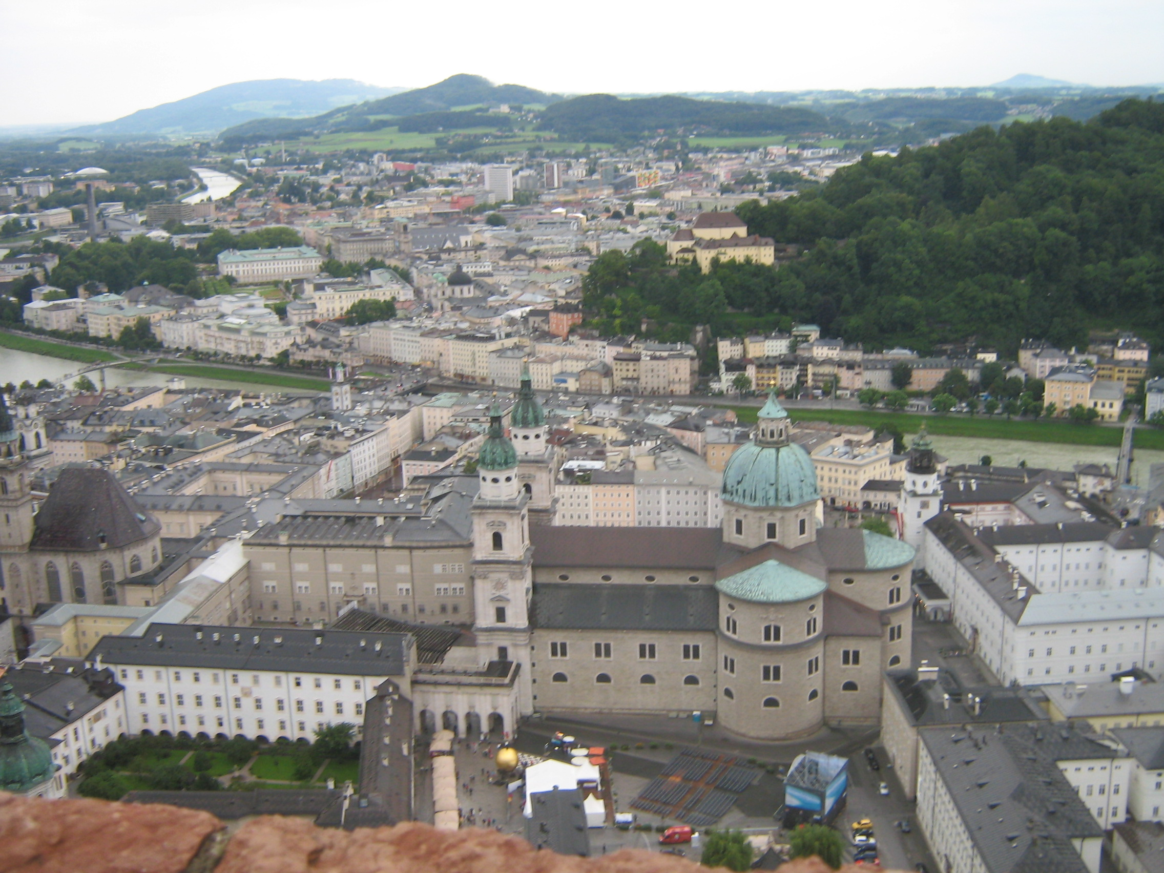 Austria, Salzburg